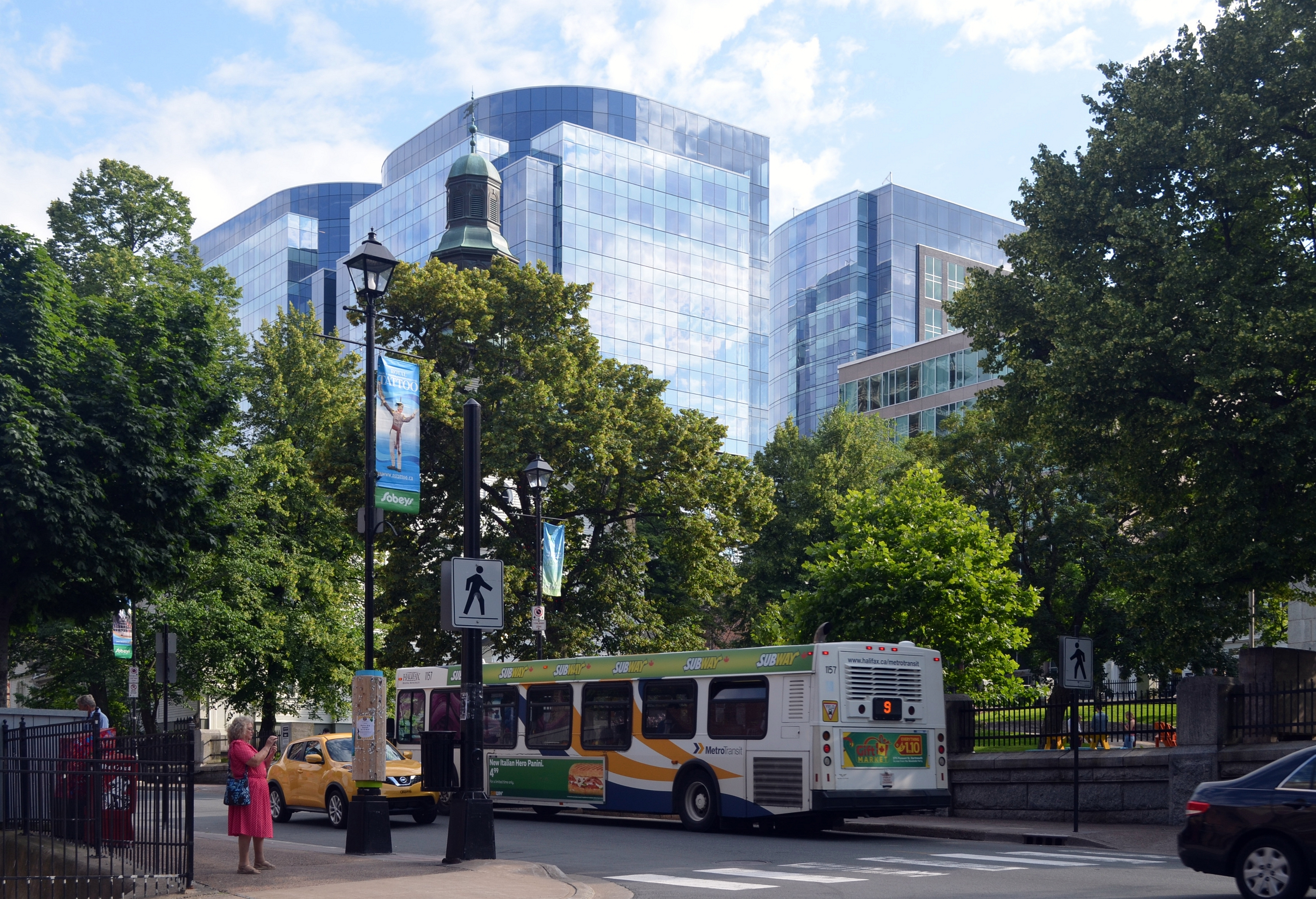 View of the Nova Centre from Barrington Street in Halifax, Nova Scotia.